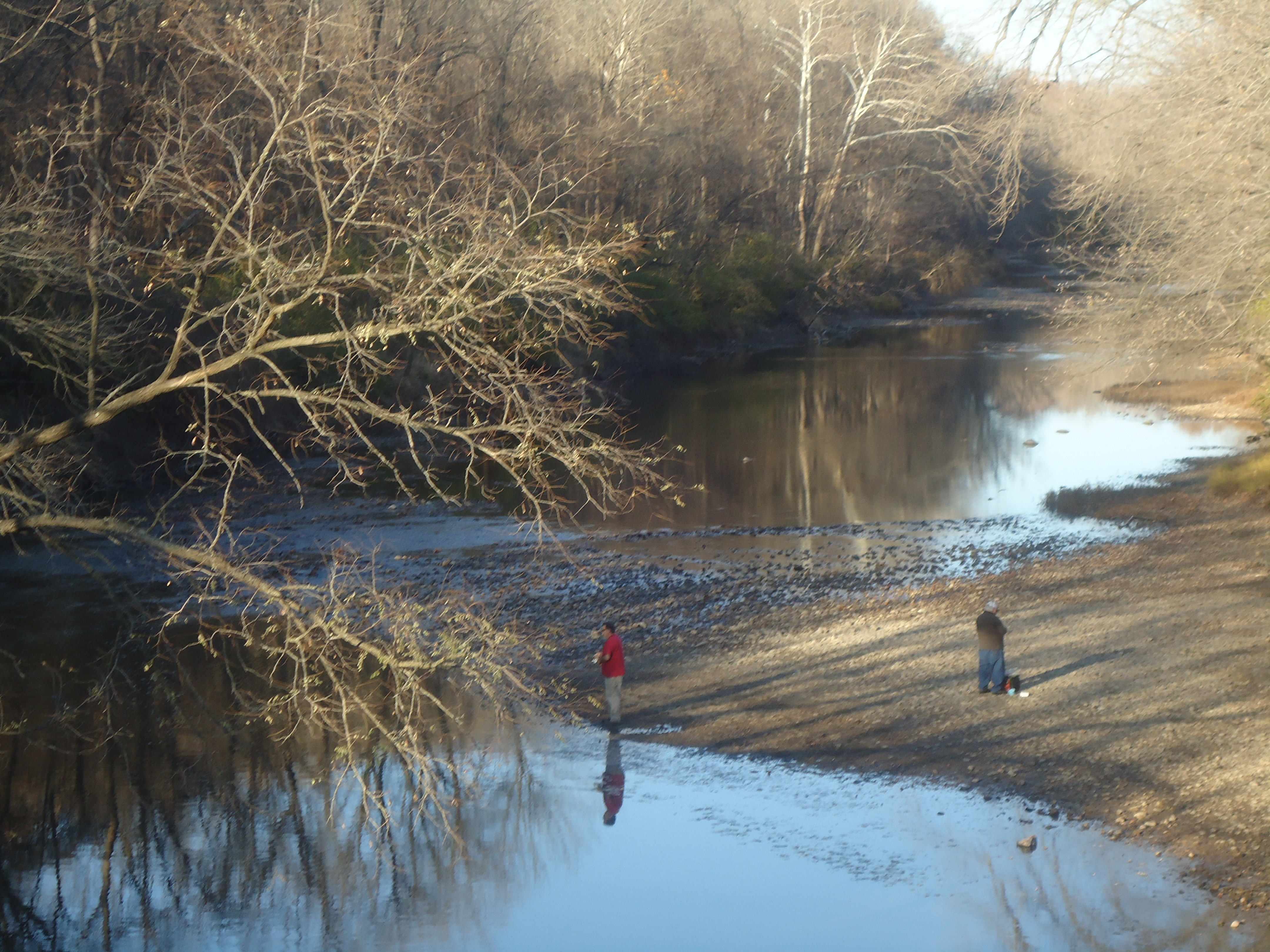 This is a picture of two fishermen testing their luck on the Vermilion River in Kickapoo State Park.